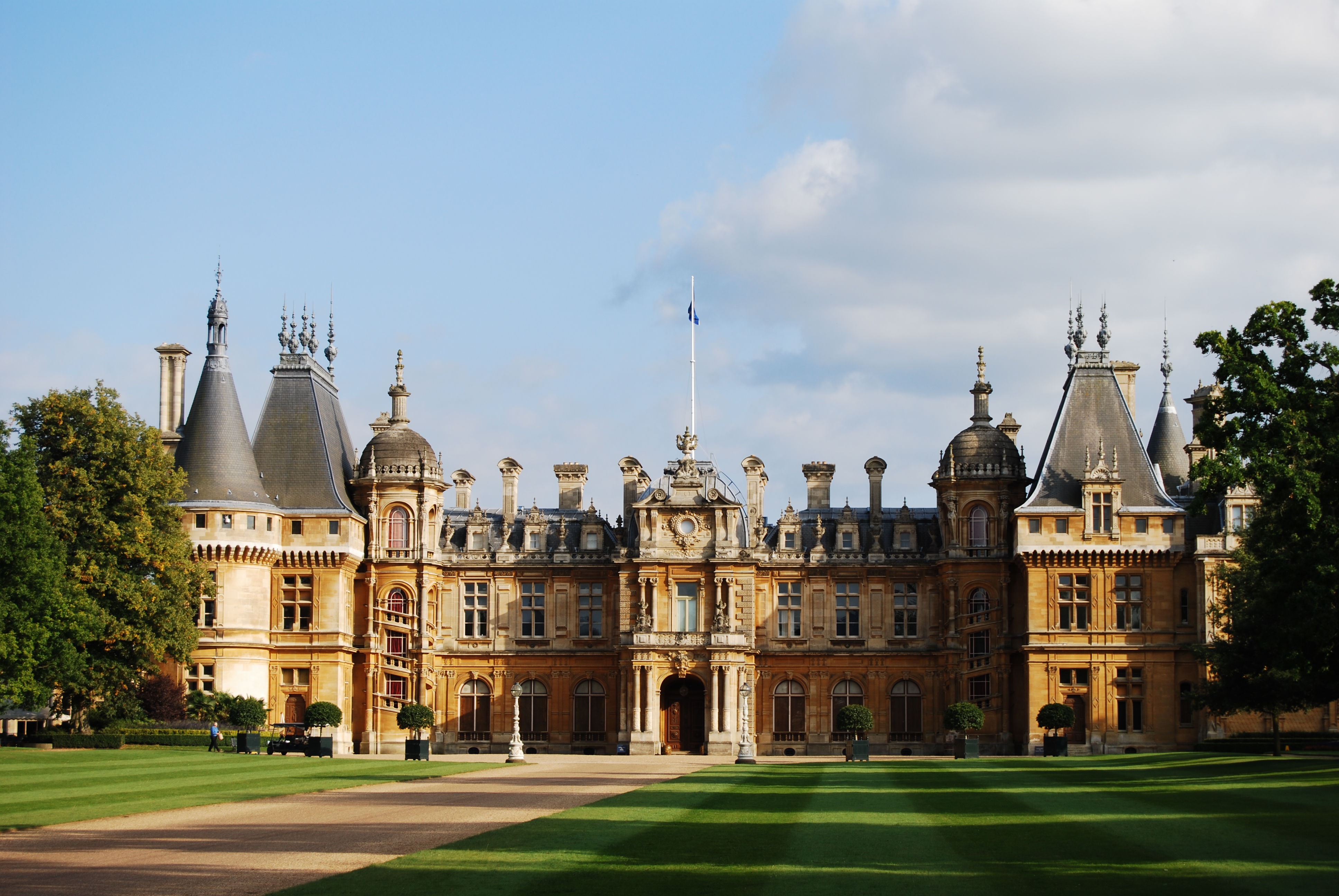 Waddesdon Manor, built between 1874 and 1889